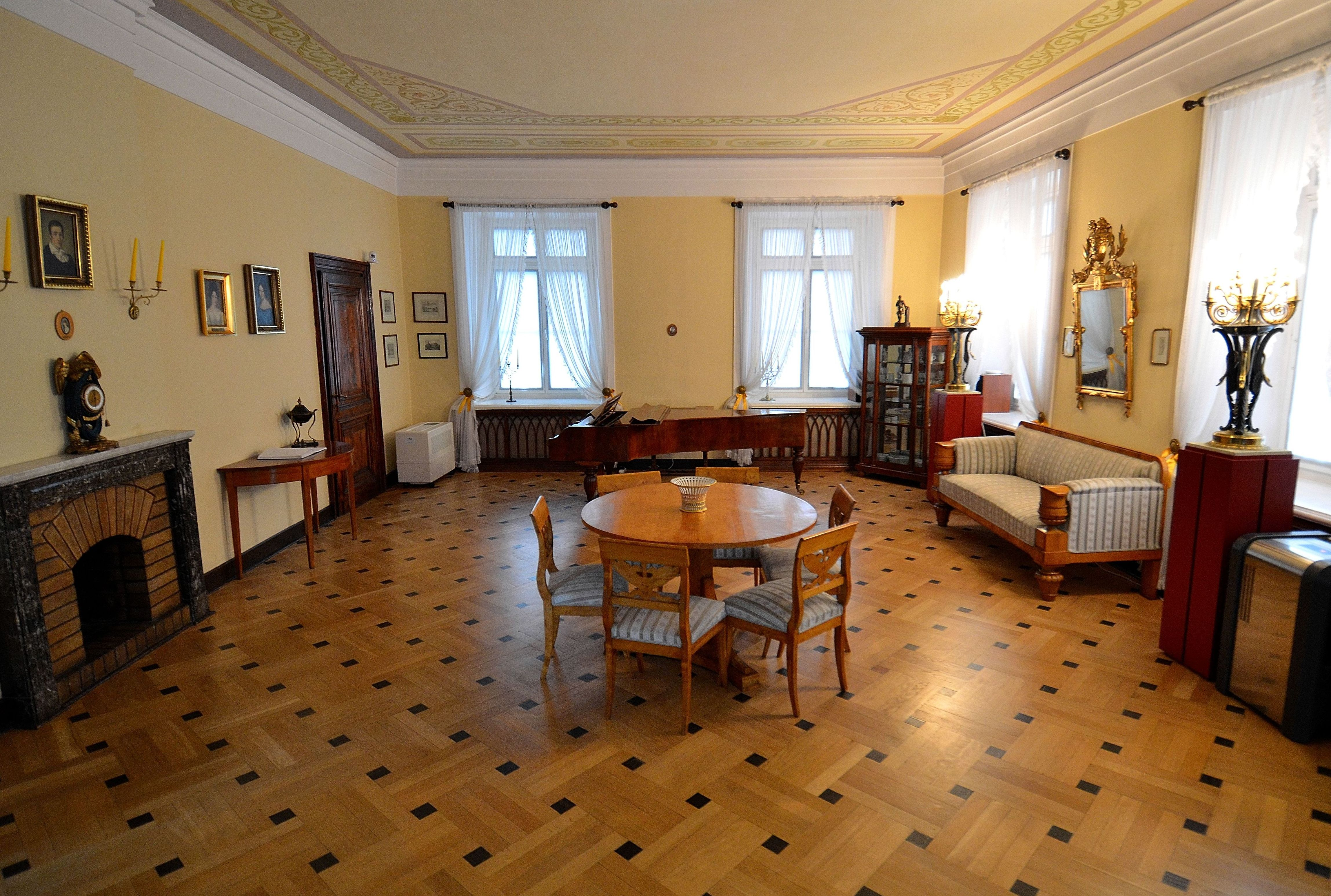 The Chopins' Parlour in the Czapski Palace in Warsaw